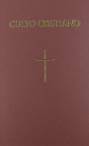 Cover art of the book Culto Cristiano.